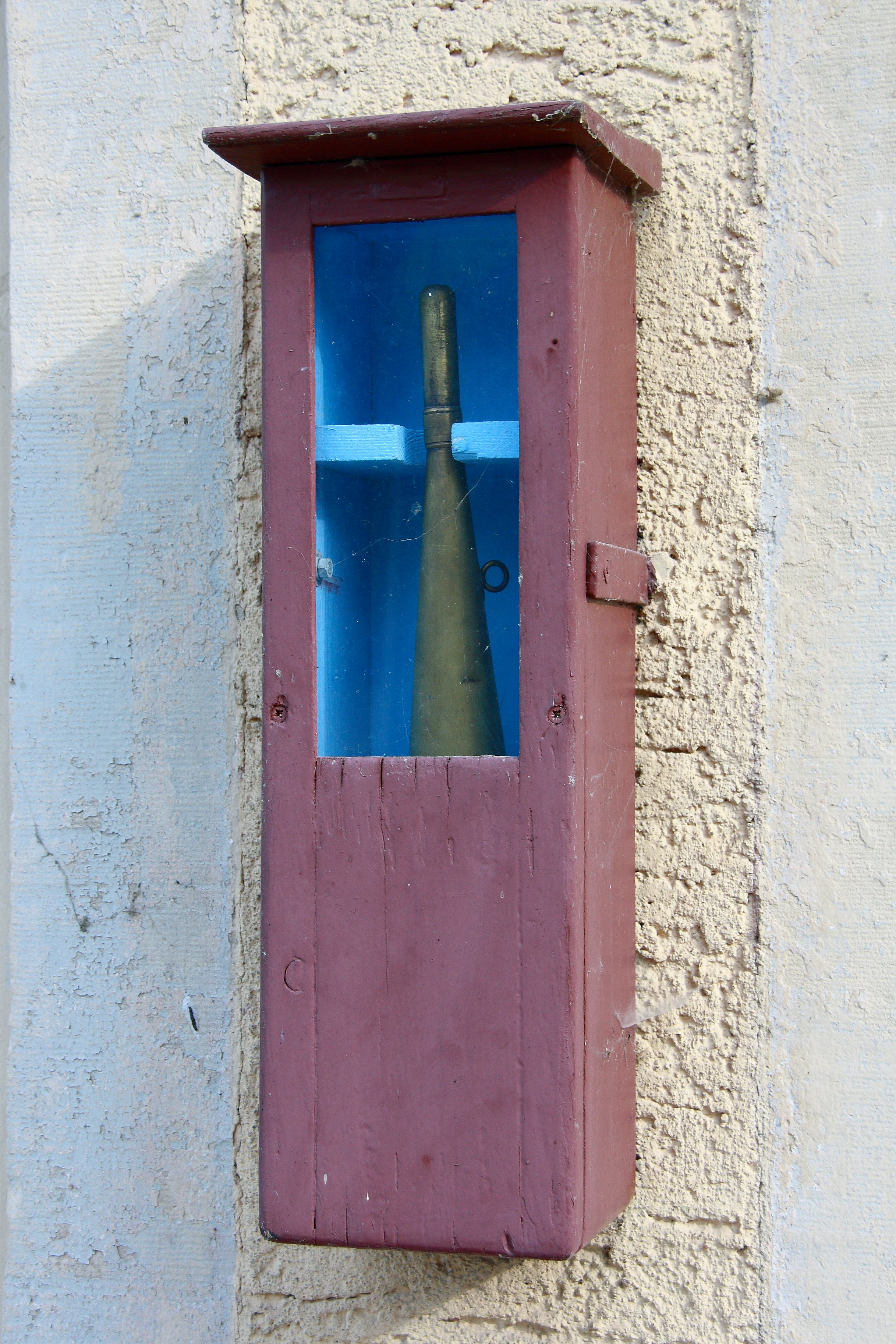 Historical alarm horn at the former town hall in Haagen (Weikersheim).